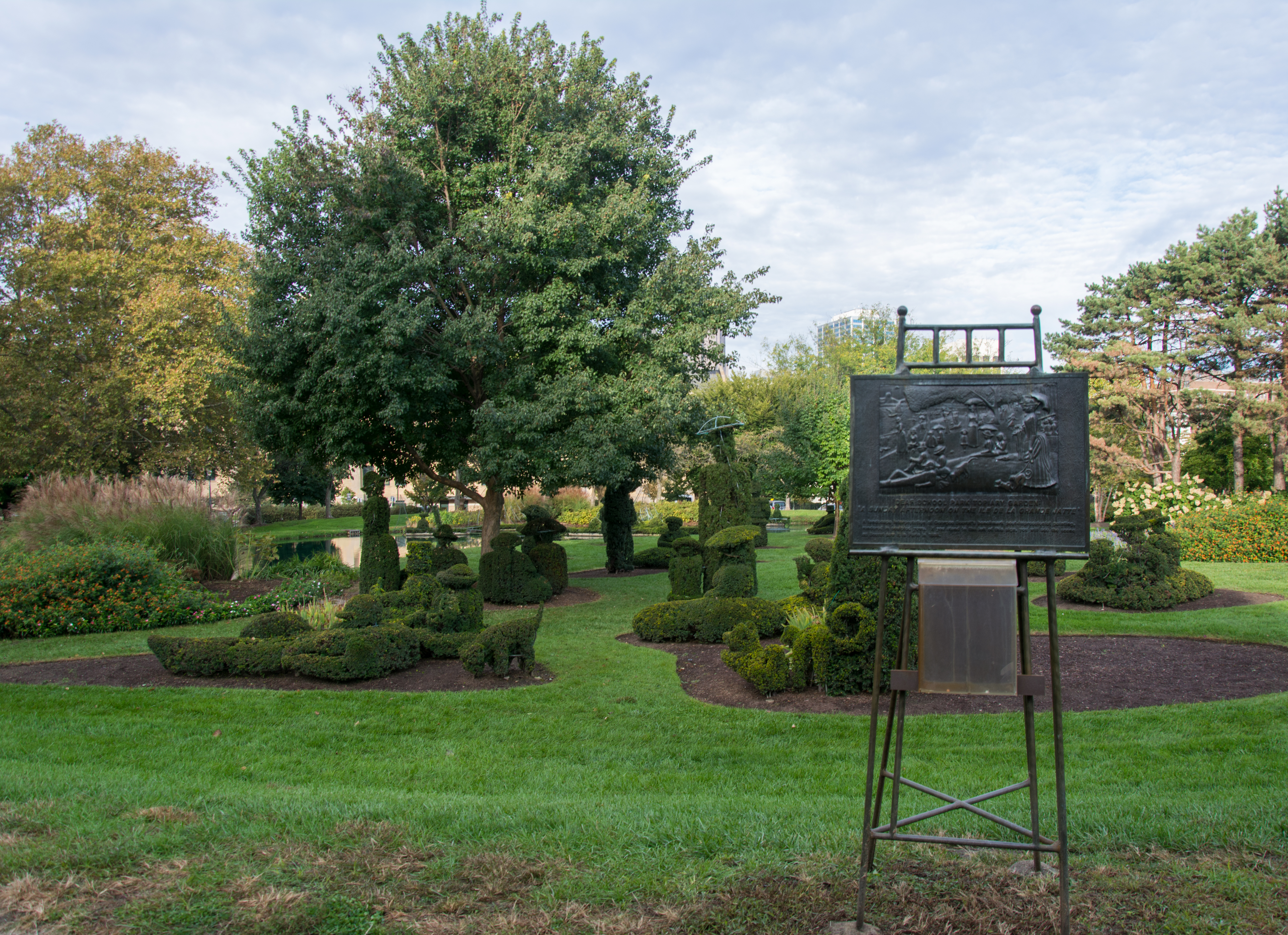 Part of Topiary Park in downtown Columbus